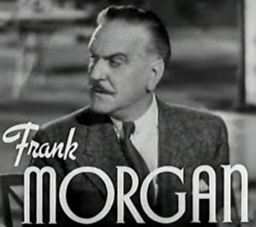 Cropped screenshot of Frank Morgan from the trailer for the film The Last of Mrs. Cheyney